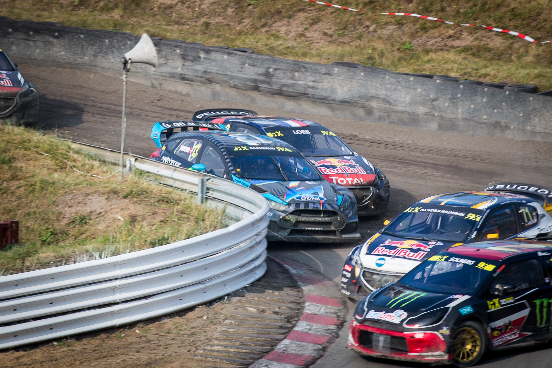 Andreas Bakkerud, Petter Solberg, Kevin Hansen and Sébastien Loeb at Round 11 of the 2016 World Rallycross Championship at Estering, Germany.